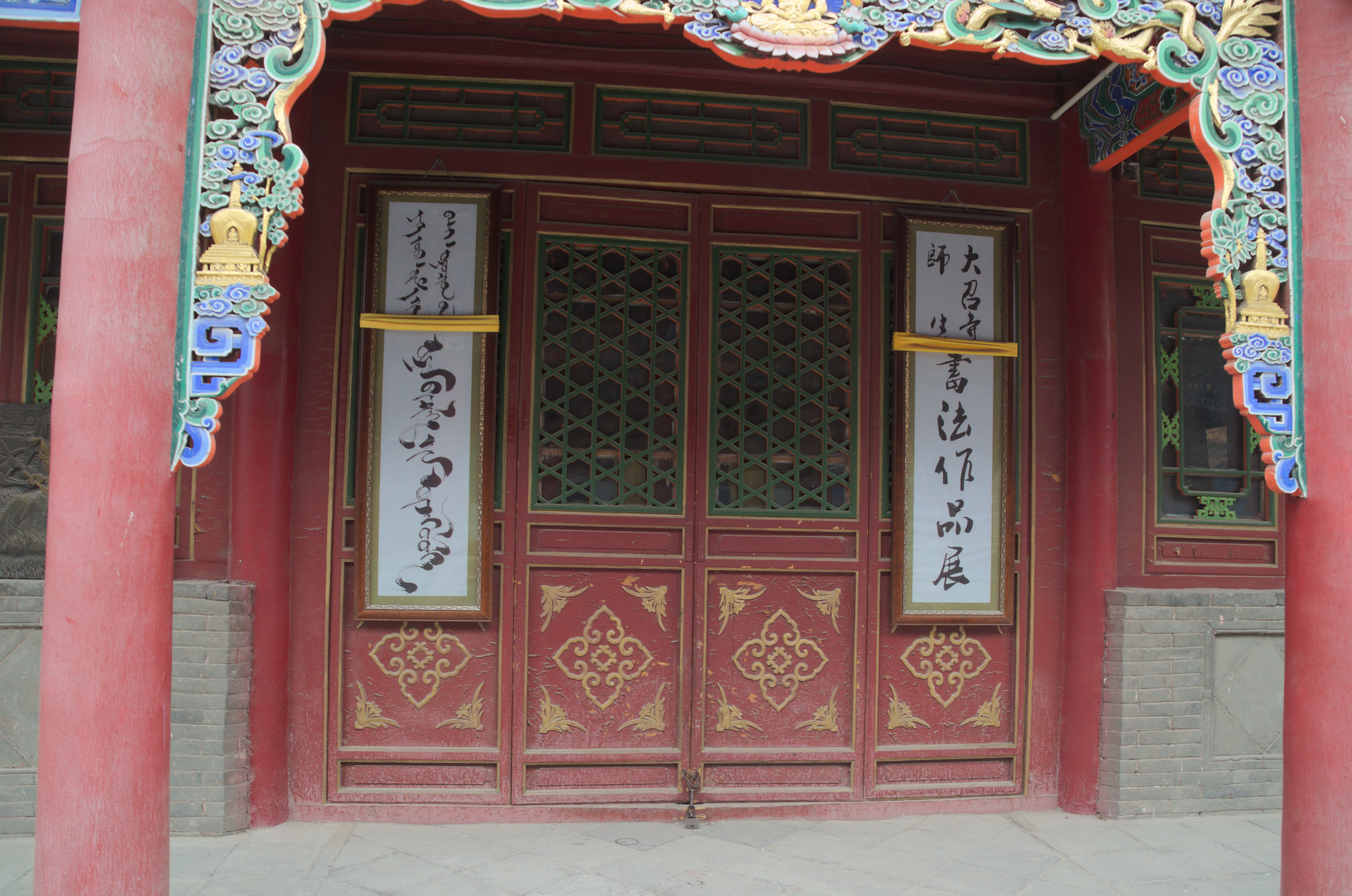 Mongolian (at left) and Chinese Han (at right) calligraphies of the Dazhao Temple, at Hohhot, capital of Inner-Mongolia, in People Republic of China.